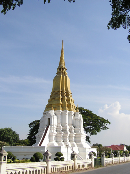 Chedi Pra Sri Suriyothai, Ayutthaya, Thailand.